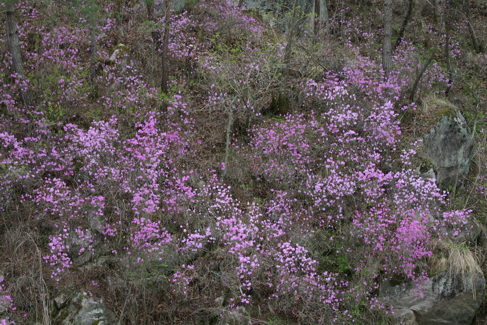 A view of Andong City, Gyeongsangbuk-do, South Korea